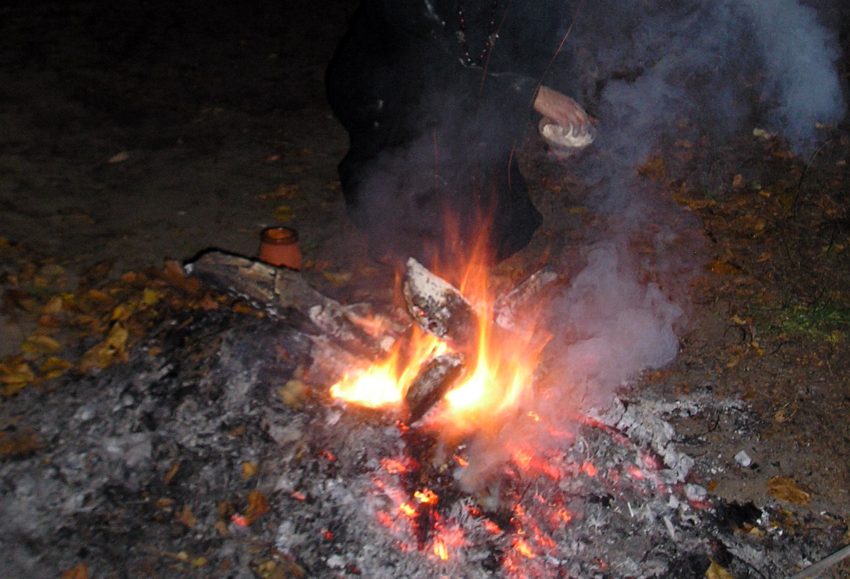 Dziady was an ancient Slavic feast to commemorate the dead - RKP (2008), Pęcice